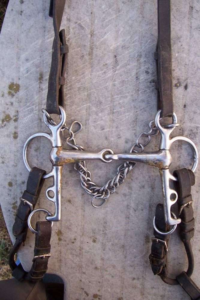 A Pelham bit